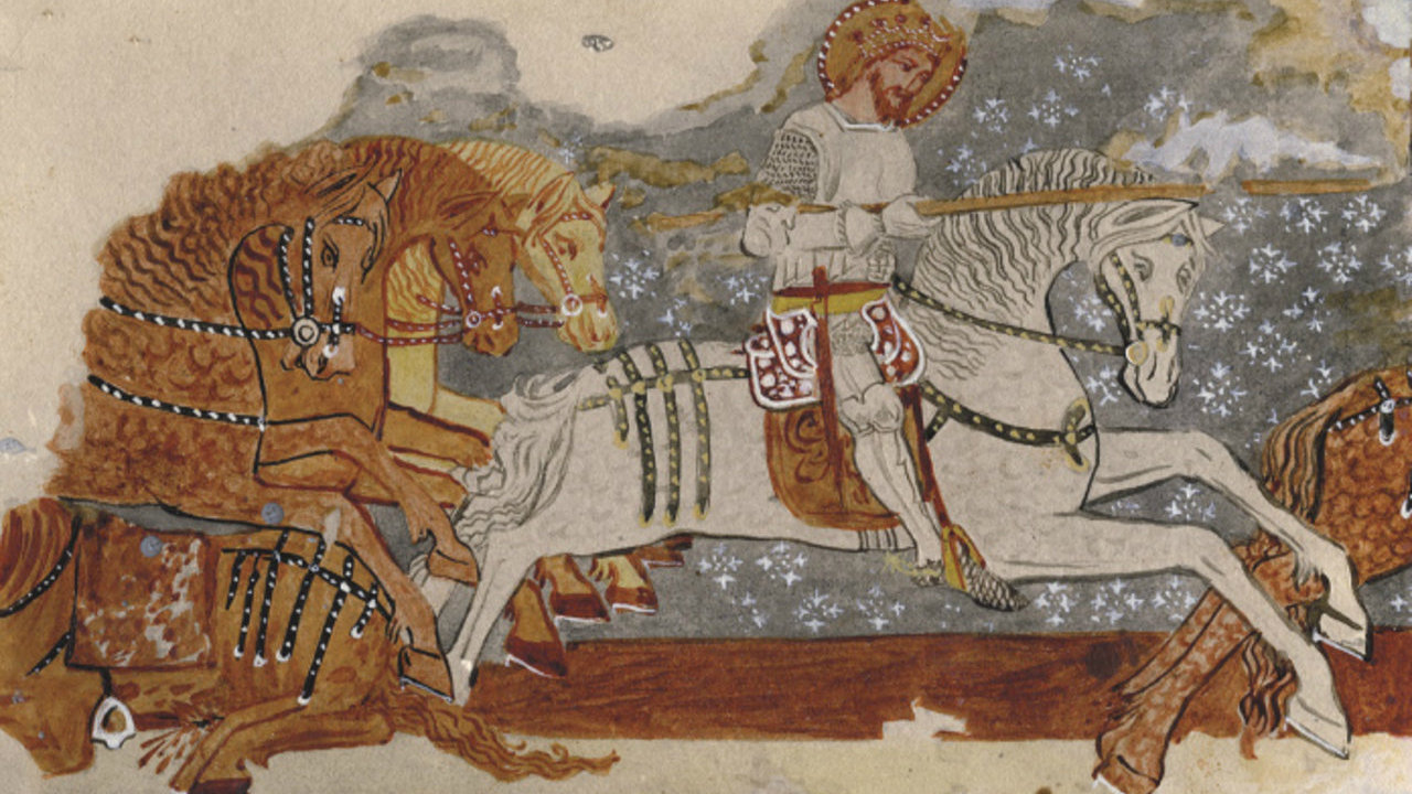 Mural in Székelyderzs Unitarian Church: The Saint Ladislaus legend, detail with the cavalier-king saint. Dârjiu. The Saint Ladislaus legend, detail with the cavalier-king saint. Murals on the St. Ladislaus legend. Dârjiu, The murals of the Unitarian church show the legend of Ladislaus I of Hungary.